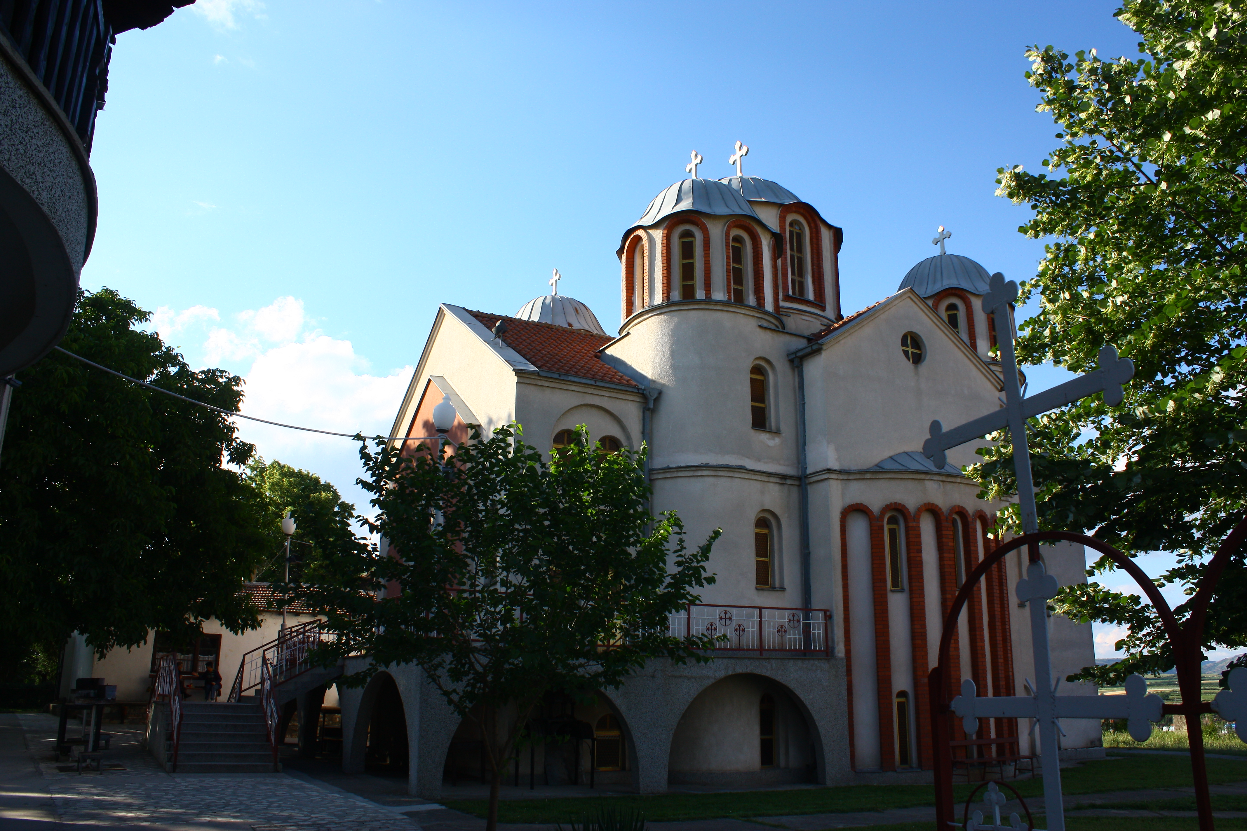 St. Nicholas Church in Sveti Nikole, Macedonia This image is uploaded as part of the picture contest Wiki Loves Cultural Heritage in Macedonia 2013. English | македонски | +/−